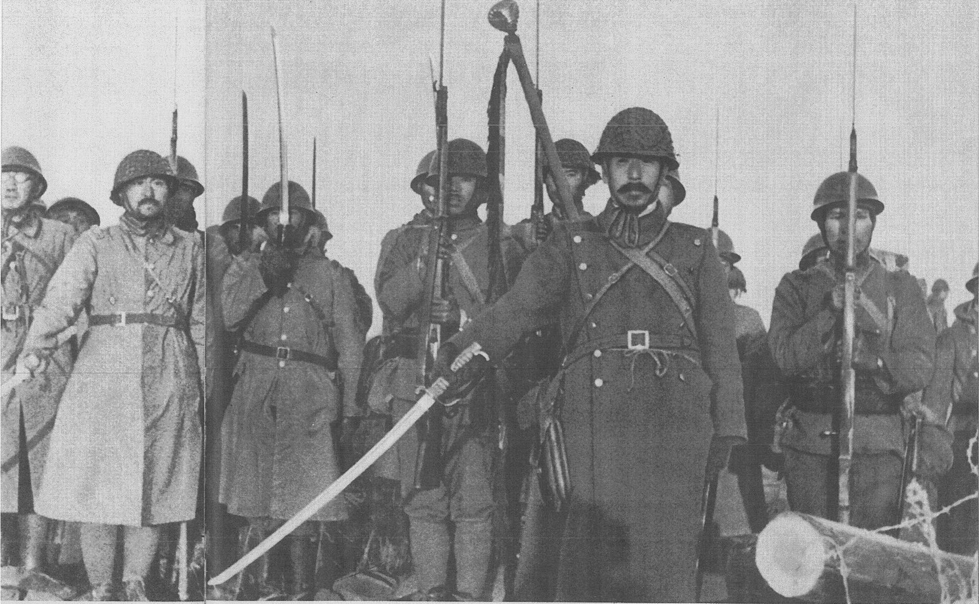 "Banzai" three times on the Guanghua Gate(Dec. 13, 1937)